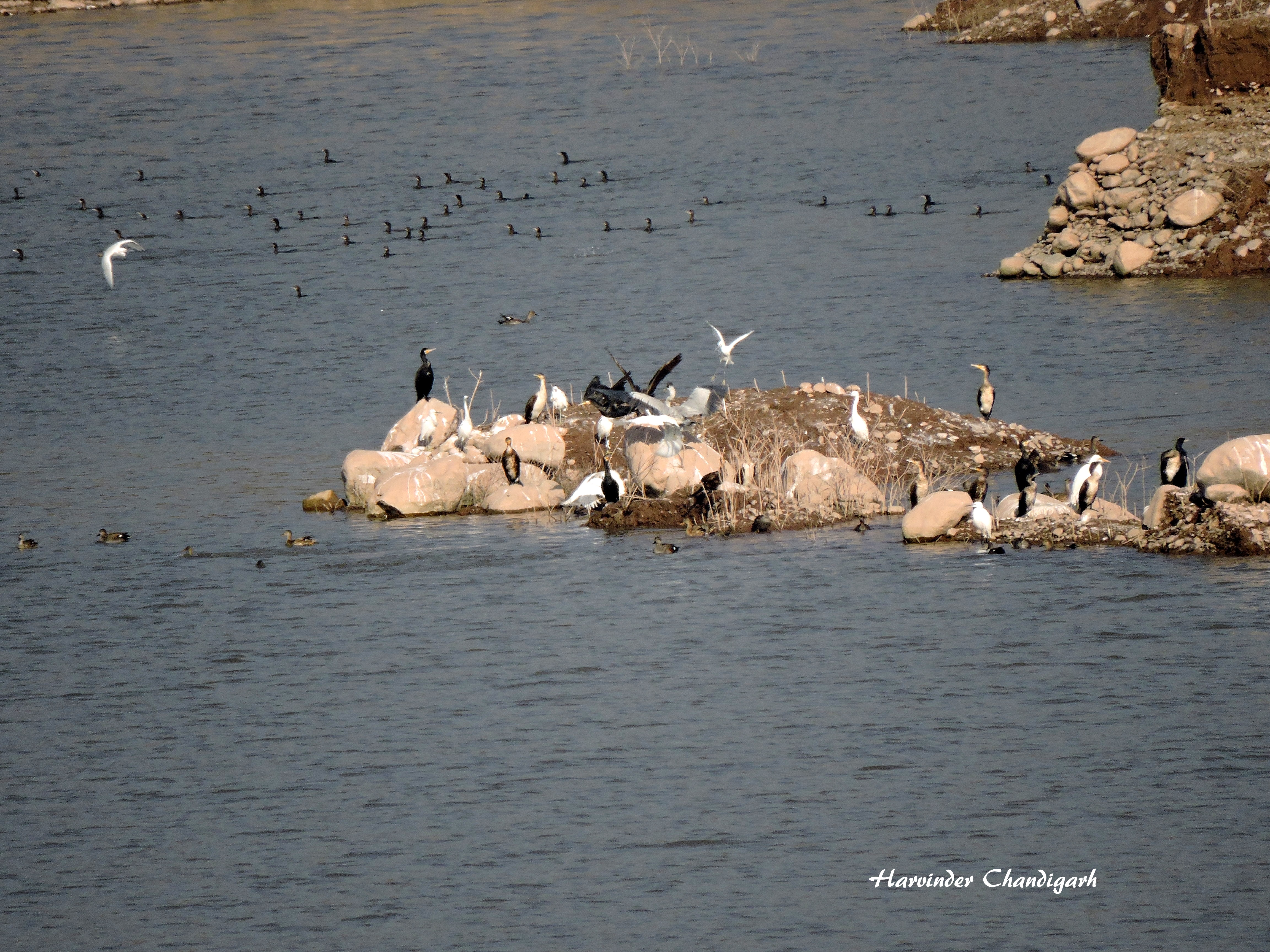 Migratory birds at Kaushalya dam, near Pinjor, Haryana, India